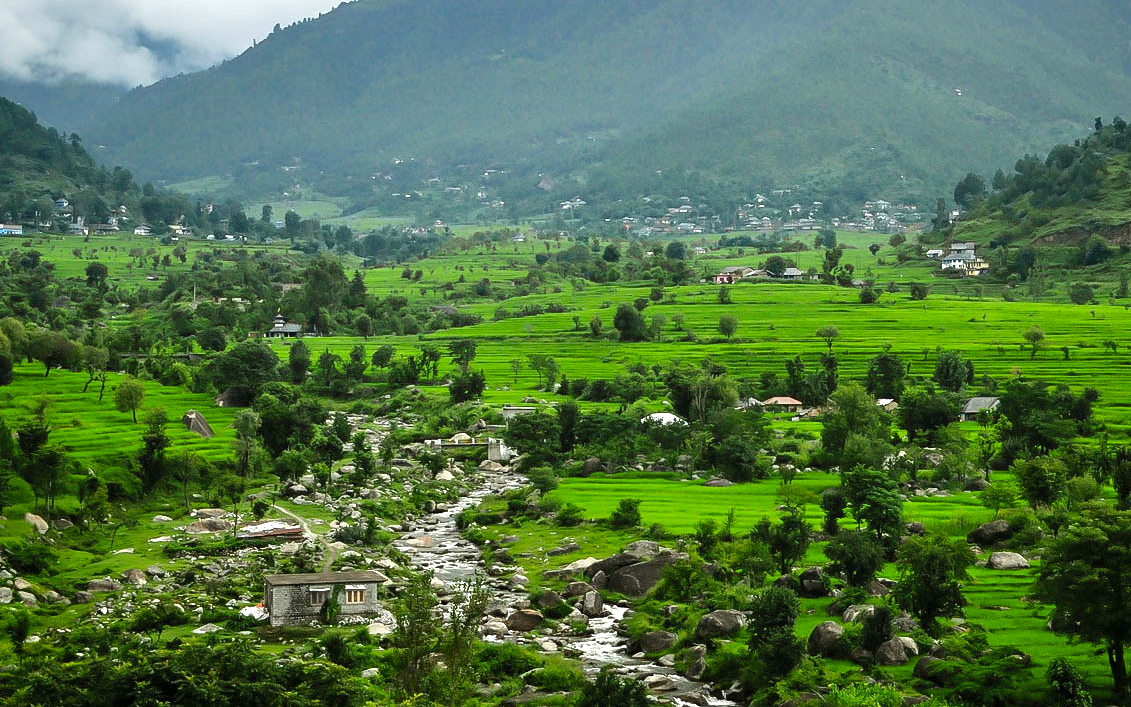 Nature, Scenery, Forests, Agriculture Between Shimla and Mandi Himachal Pradesh India